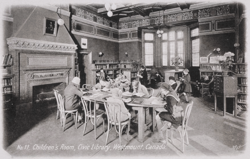 Children's Room, Civic Library, Westmount, Canada